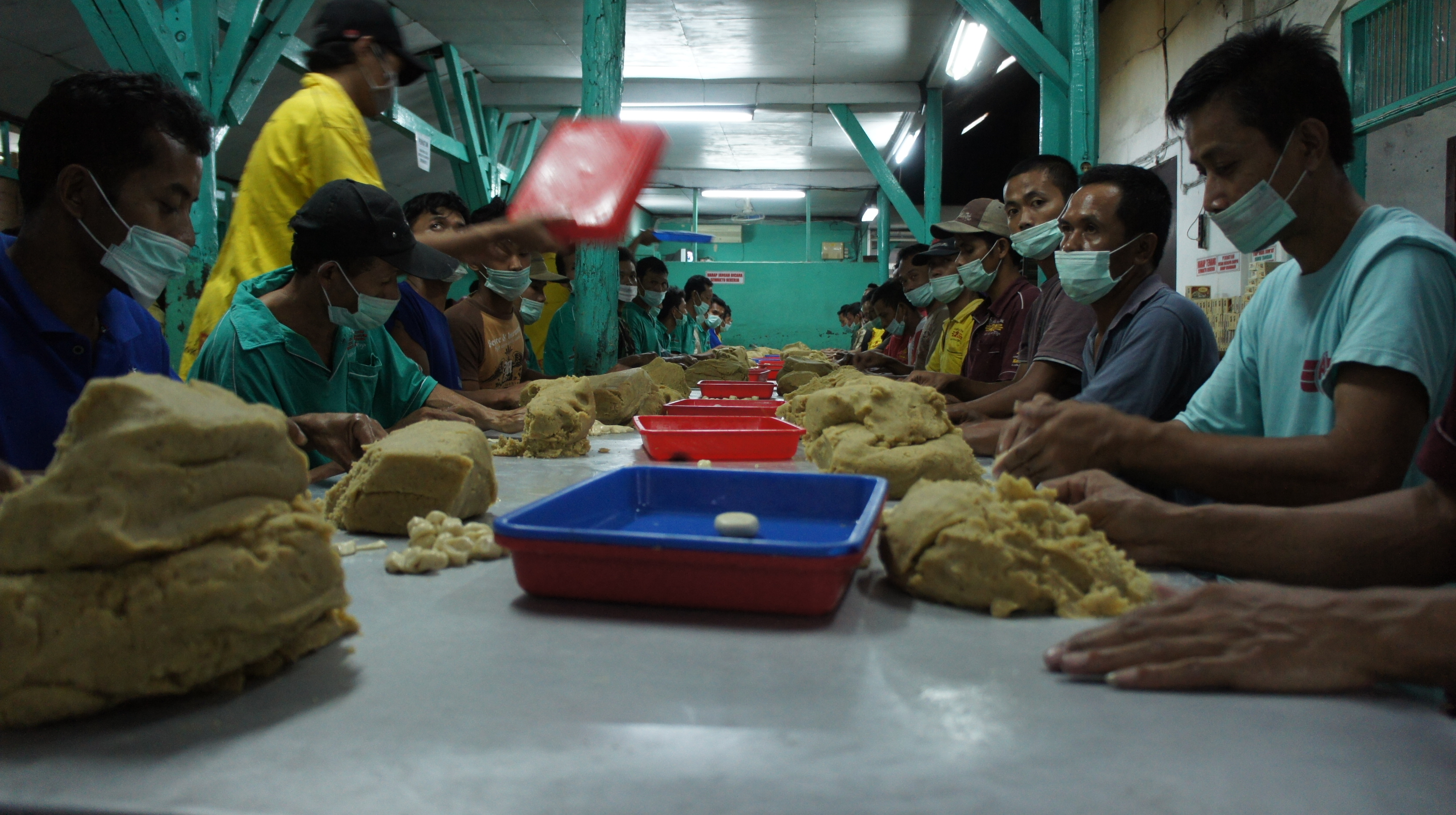 Sweet filling for bakpia